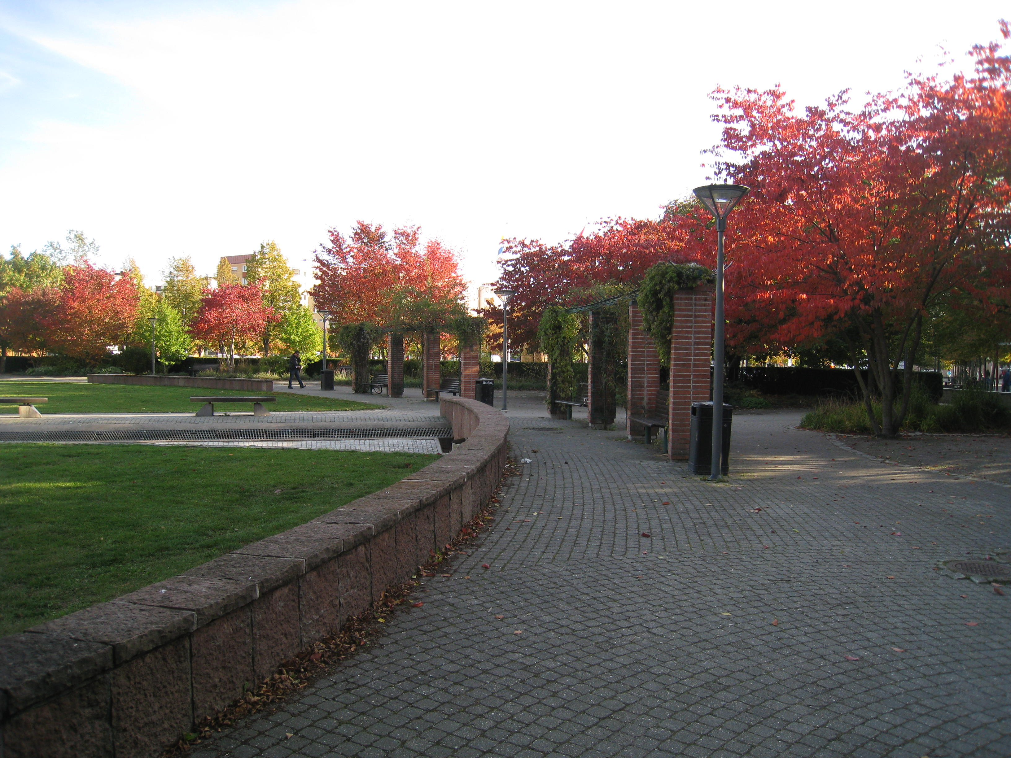 The park "Riddarparken" in the centre of Jakobsberg, Järfälla, Stockholm County.